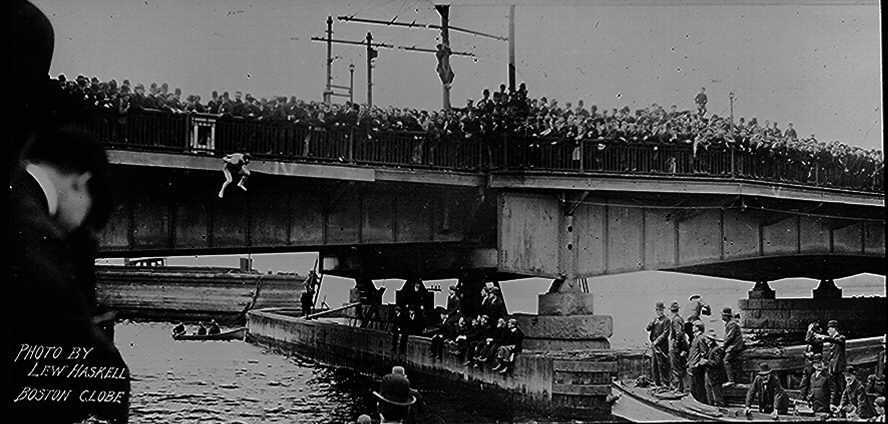 Harry Houdini jumps from the Harvard Bridge.